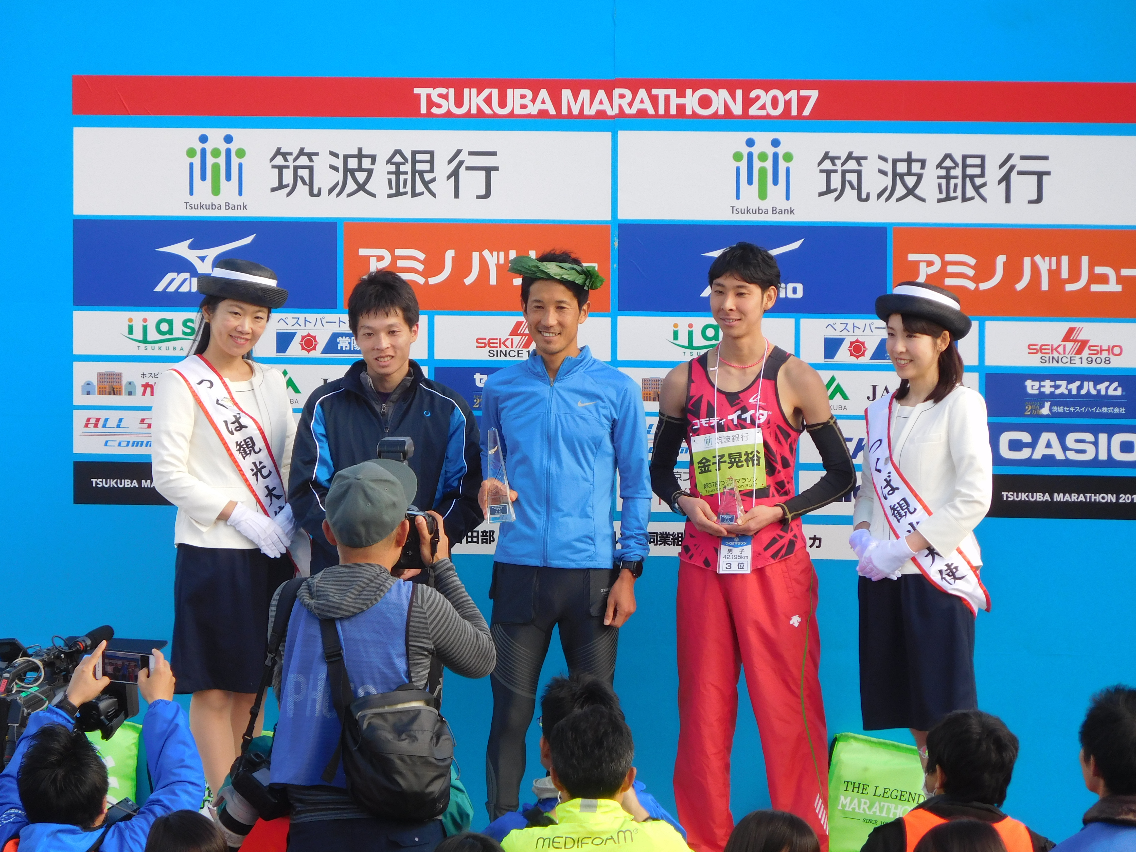 This is an awards ceremony of Men's marathon of Tsukuba Marathon. A man in the middle of this photo is Arata FUJIWARA.